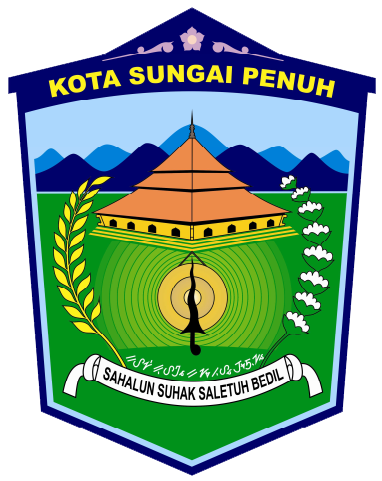 Coat of Arms, or Shield, (Lambang) of City (Kota) of Sungai Penuh in Jambi Province, Indonesia